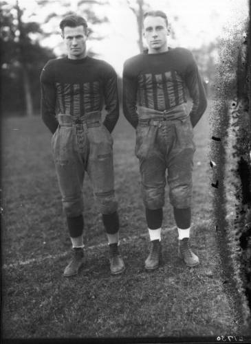 American football players Joe Work and Bill Lohrman in 1922